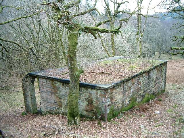 Shelter in the trees. An abandoned wartime building near the Argyll Caravan Park.